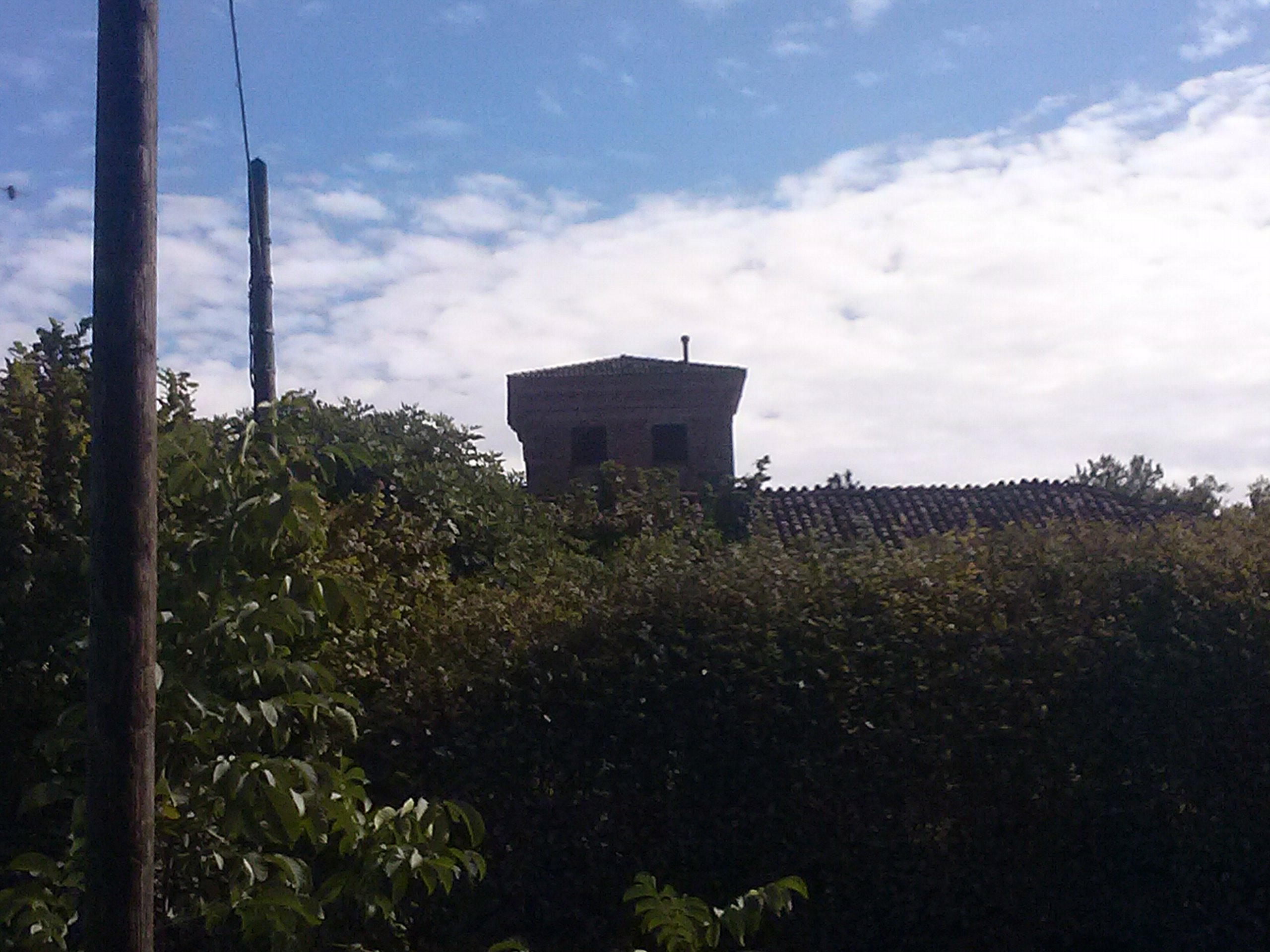 Tower of the Castle of Castelbosco, near Campremoldo Sopra, municipality of Gragnano Trebbiense, Piacenza, Italy